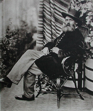 portrait of Tom Taylor, by Lewis Carroll: This was first published in Carroll's biography by his nephew: Collingwood, Stuart Dodgson (1898) The Life and Letters of Lewis Carroll, London: T. Fisher Unwin, pp. p. 185 Retrieved on 22 December 2010.